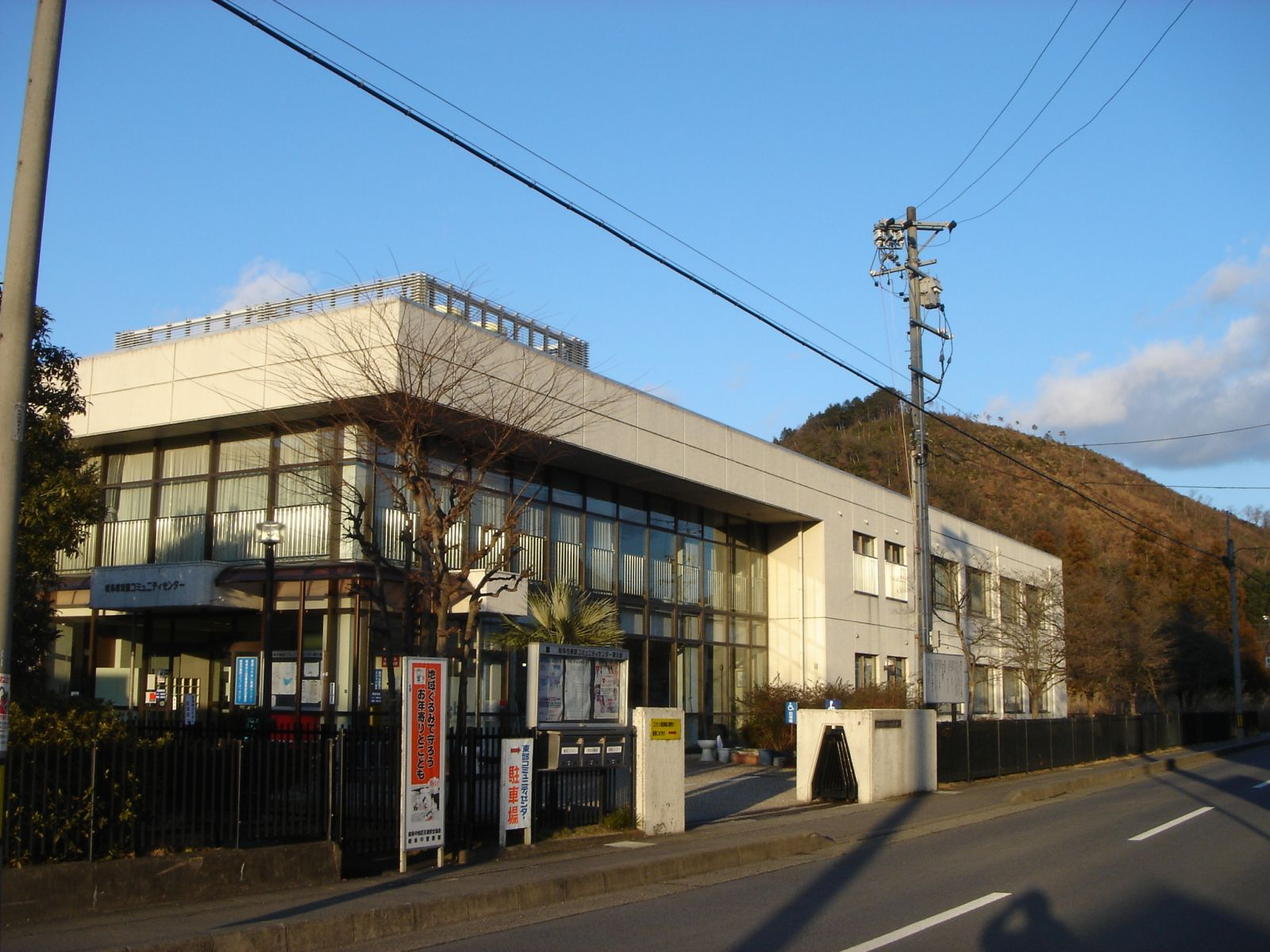 Gifu City Toubu Community Center（岐阜市東部コミュニティセンター）,Gifu,Gifu,Japan(岐阜県岐阜市芥見)で撮影。